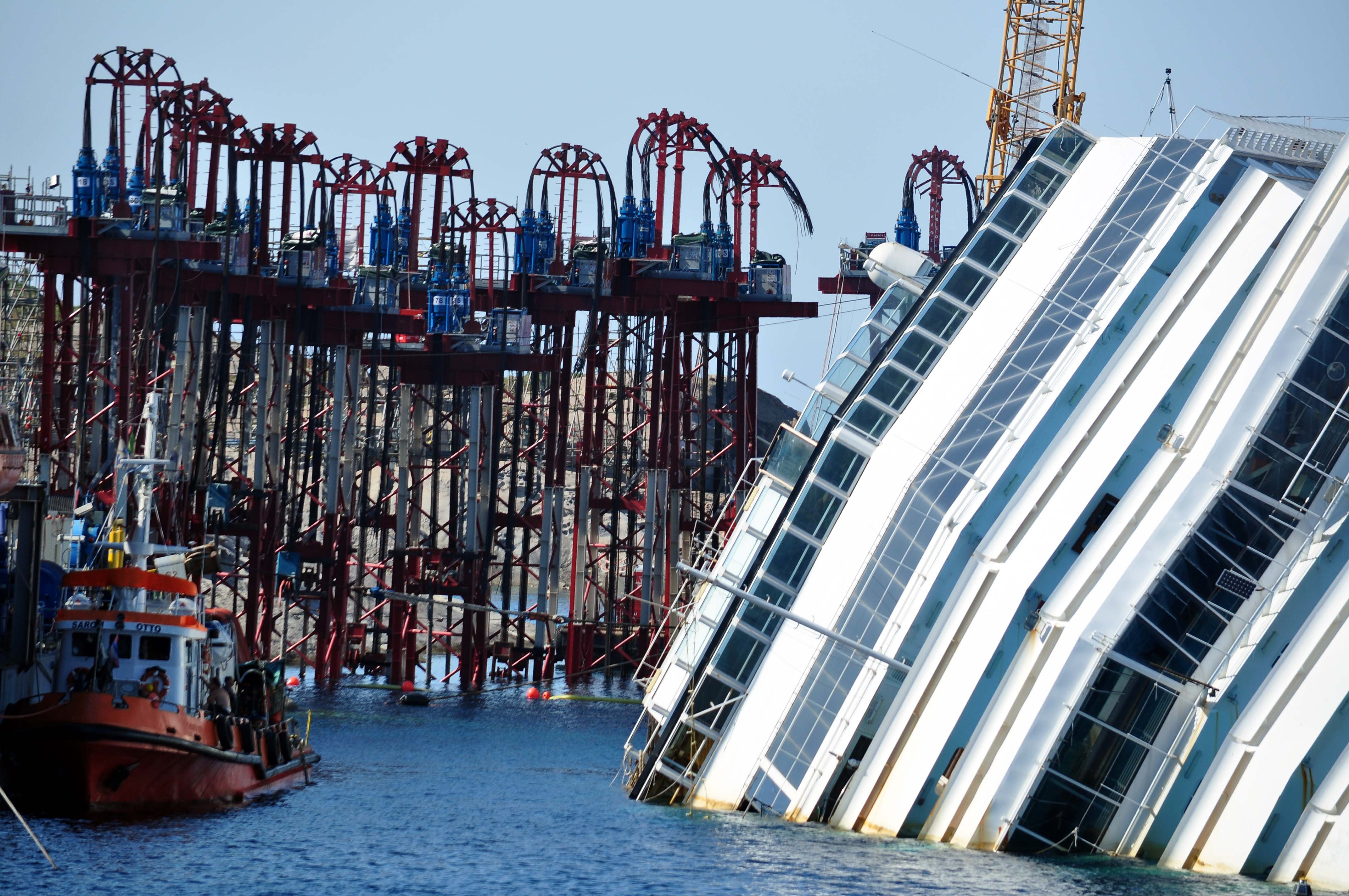 Strand jacks mounted on the Tops of the Retaining Turrets and the Costa Concordia shipwreck - Isola del Giglio - Italy - 18 Aug. 2013